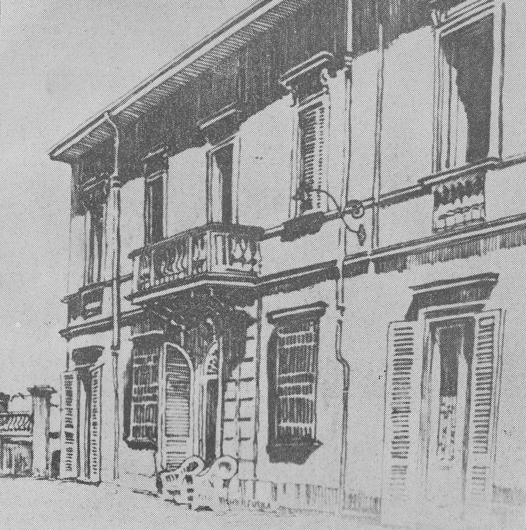 Drawing of Peratoner's villa in Marina di Pisa, Tuscany, Italy. It was place of residence of Italian poet Gabriele D'Annunzio many times.